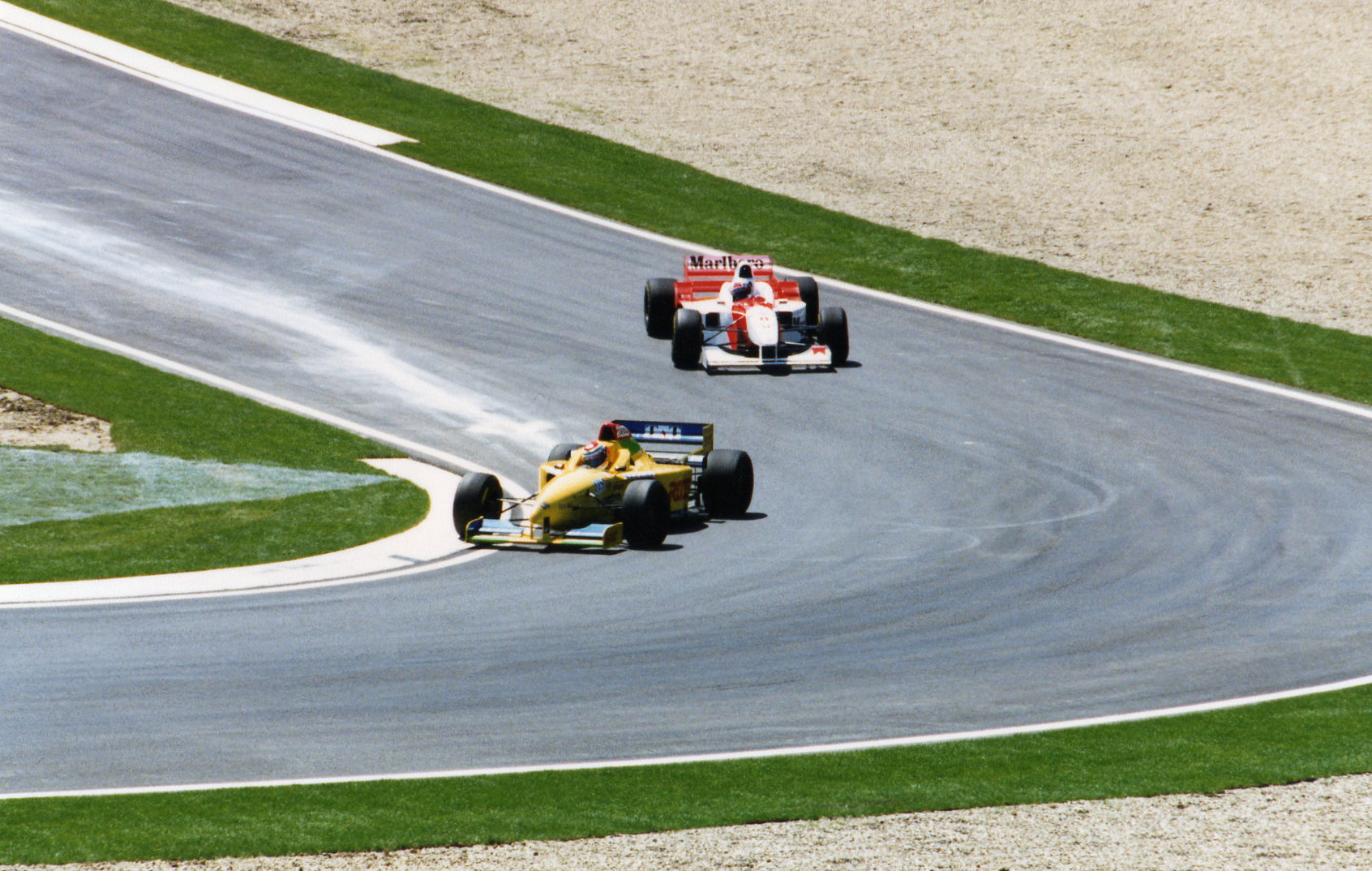 Andrea Montermini and David Coulthard during free practice of 1996 San Marino Grand Prix